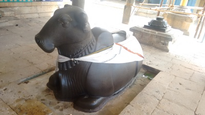 Melapaluvur meenakshi sundaresvarar temple மேலப்பழுவூர் மீனாட்சிசுந்தரேஸ்வரர் கோயில்